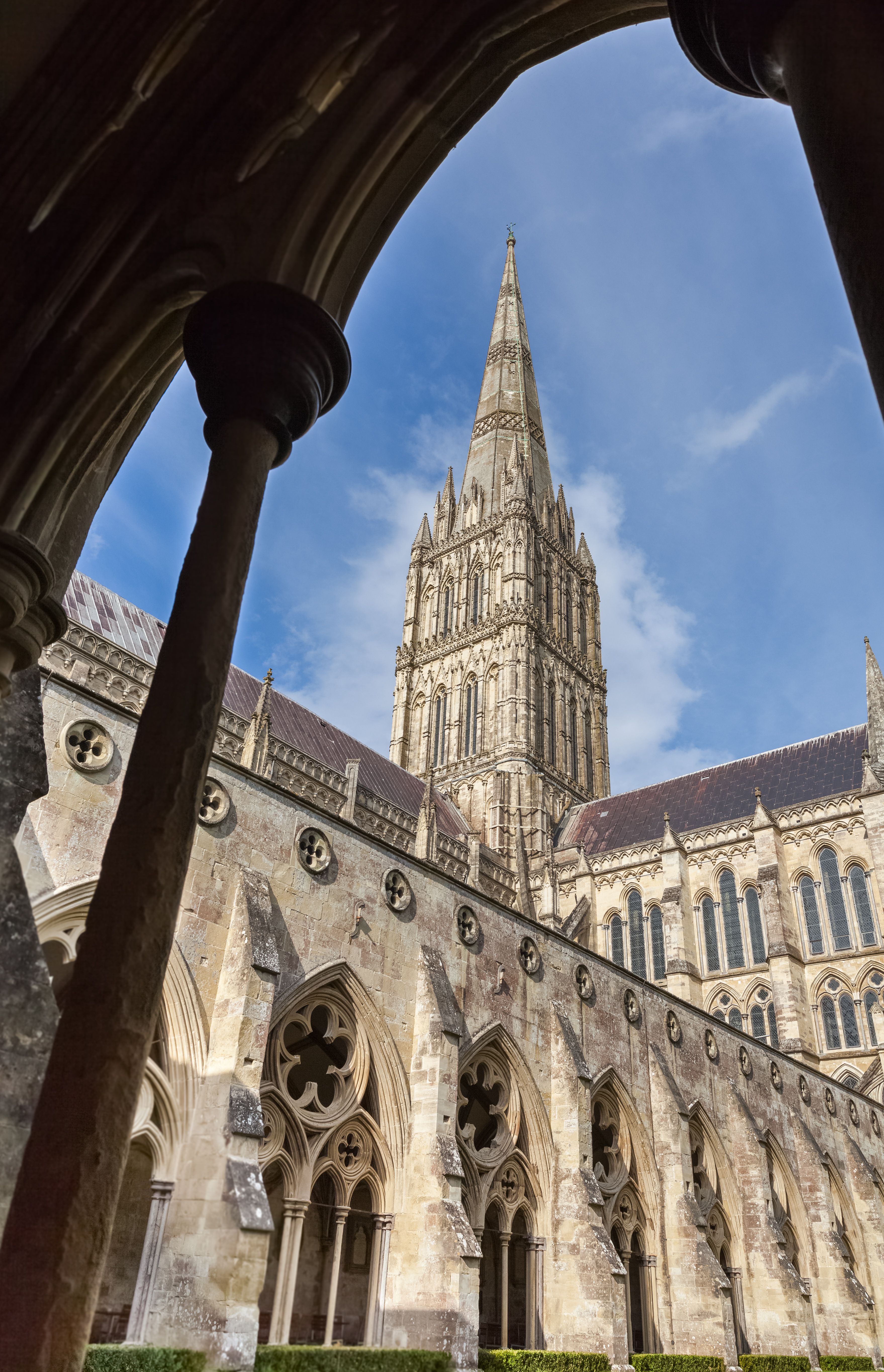 View of the spire and cloister of the Salisbury Cathedral, located in the city of Salisbury, Wiltshire, England. The temple, an Anglican cathedral, is one of the leading examples of Early English architecture and was consecrated in 1258. Its 123 m (404 feet) spire is the tallest in the United Kingdom.